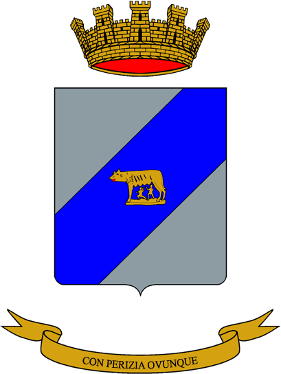 Coat of Arms of the 10° Transport Group "Salaria"; Italian Army.